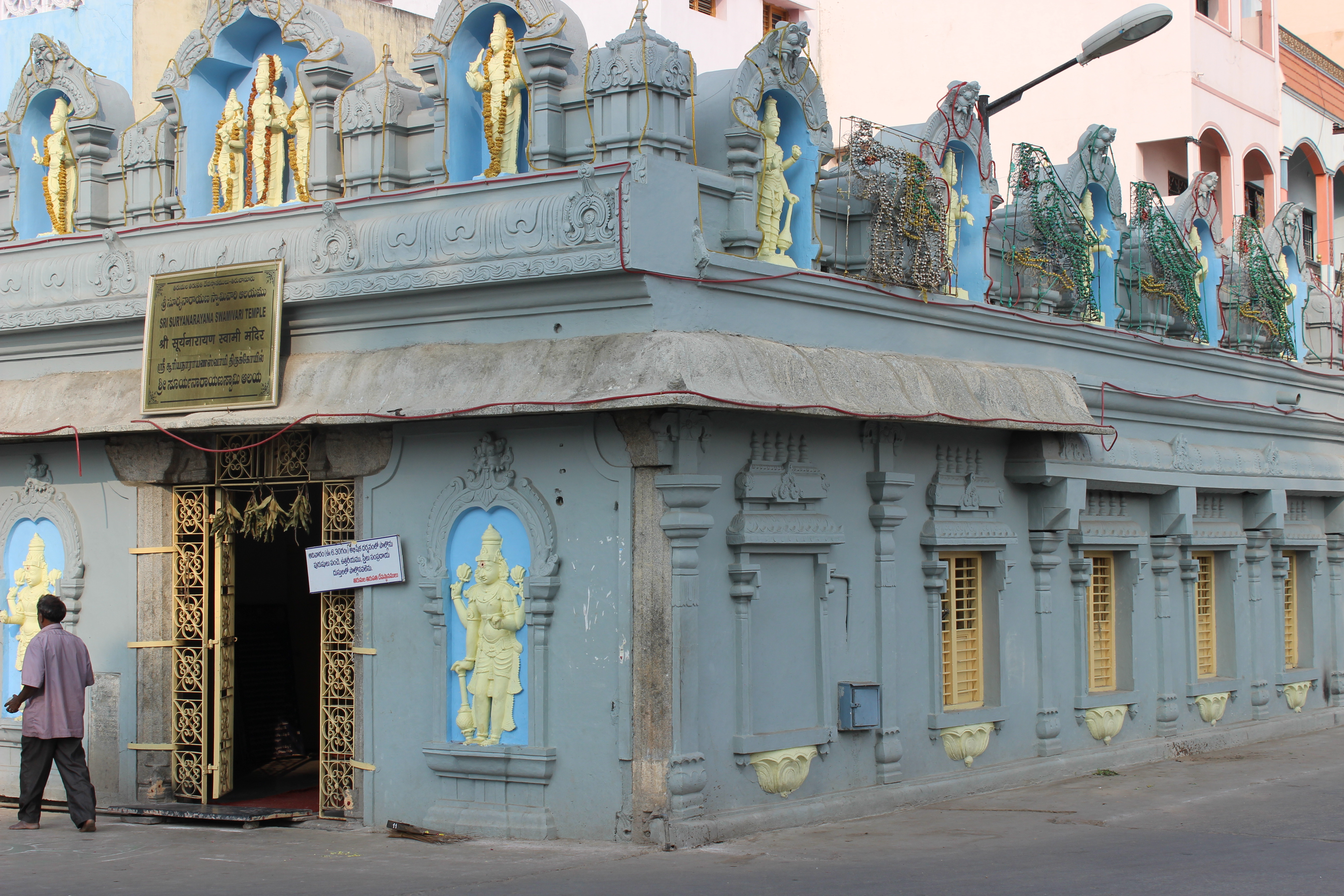 Thiruchanur